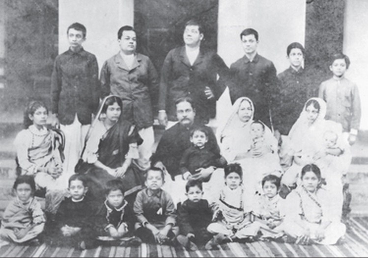 Future Indian nationalist Subhas Chandra Bose, standing extreme right, with his large family of 14 siblings in Cuttack, India, ca. 1905